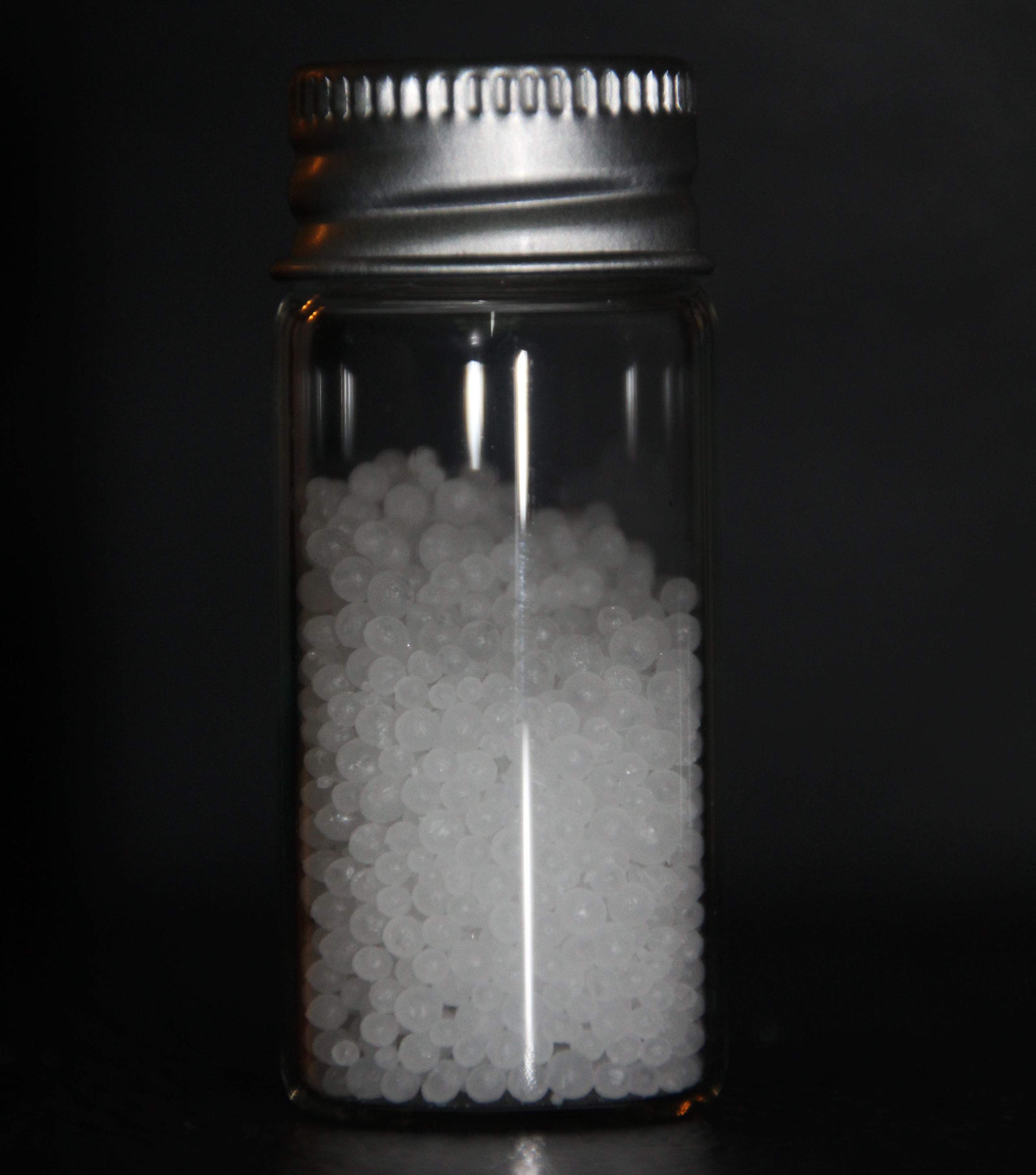 Sample of urea in the form of granules